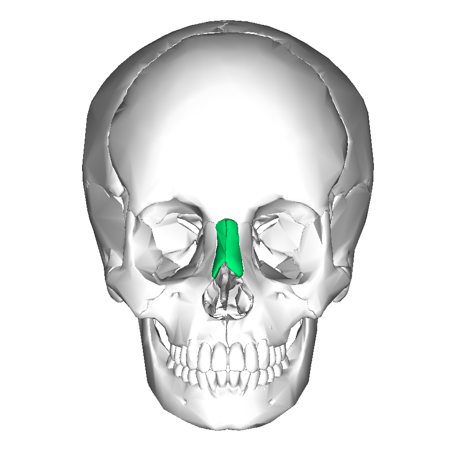 Nasal bone (shown in green).